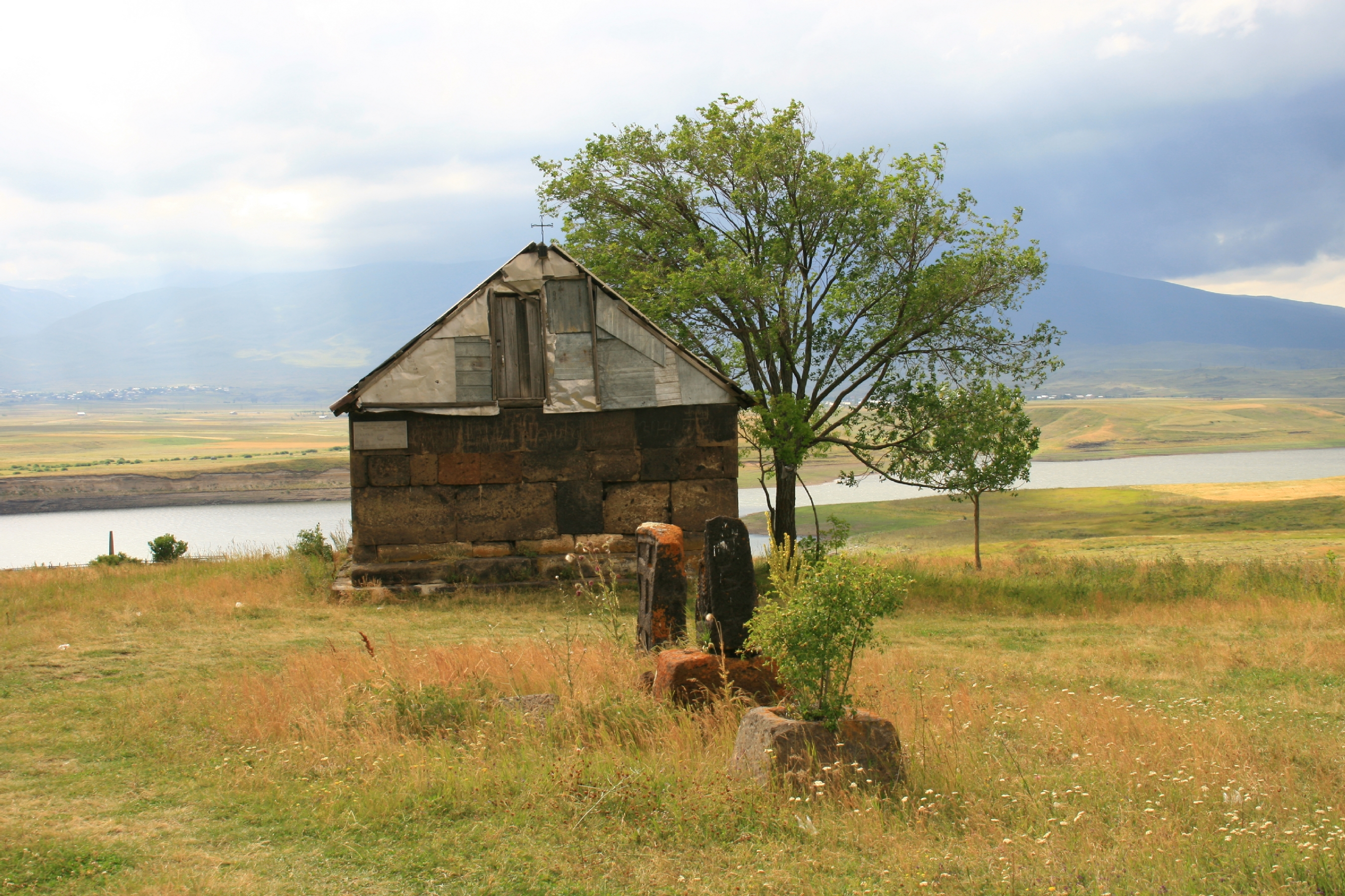 ԳՅՈՒՂԱՏԵՂԻ ԶՈՎՈՒՆԻ 91/2